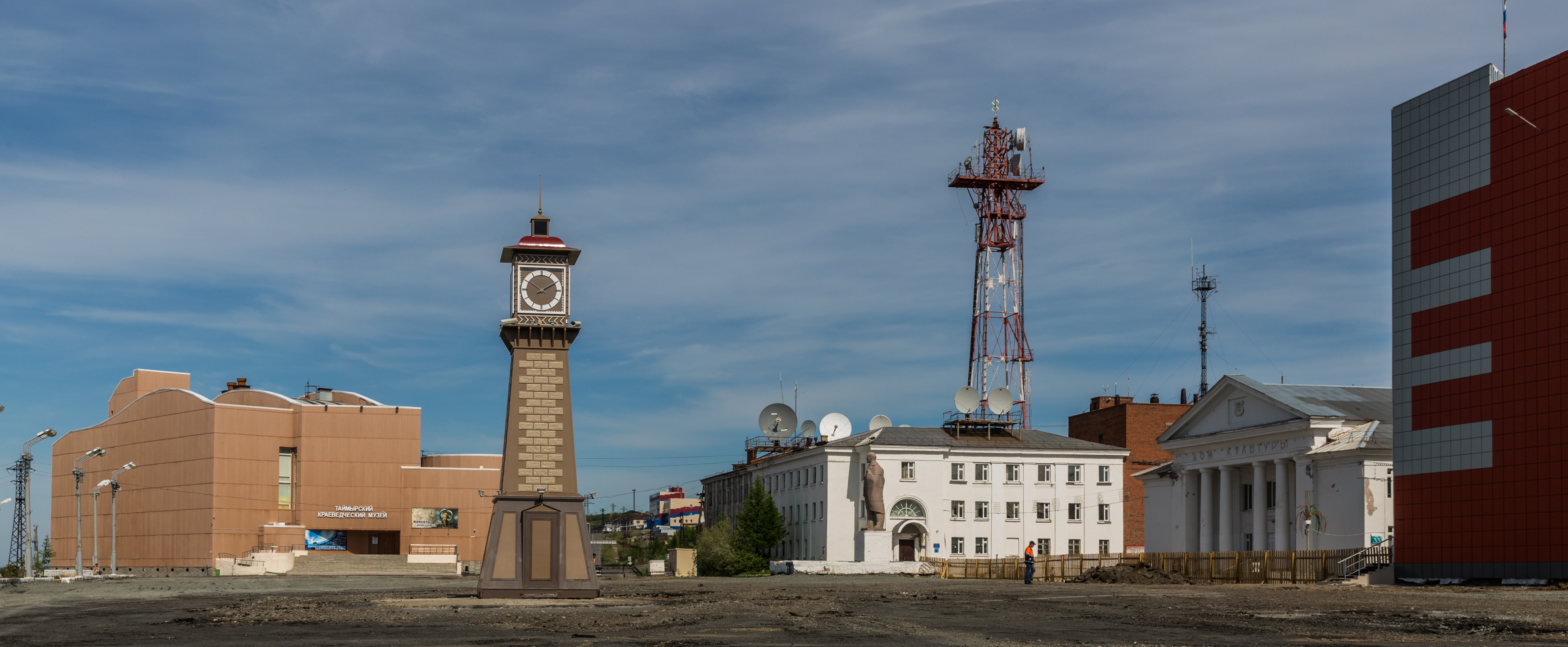 Central square of Dudinka, Local History Museum, House of Culture, Municipality, Postoffice, Lenin and Lighthouse-Clock monuments